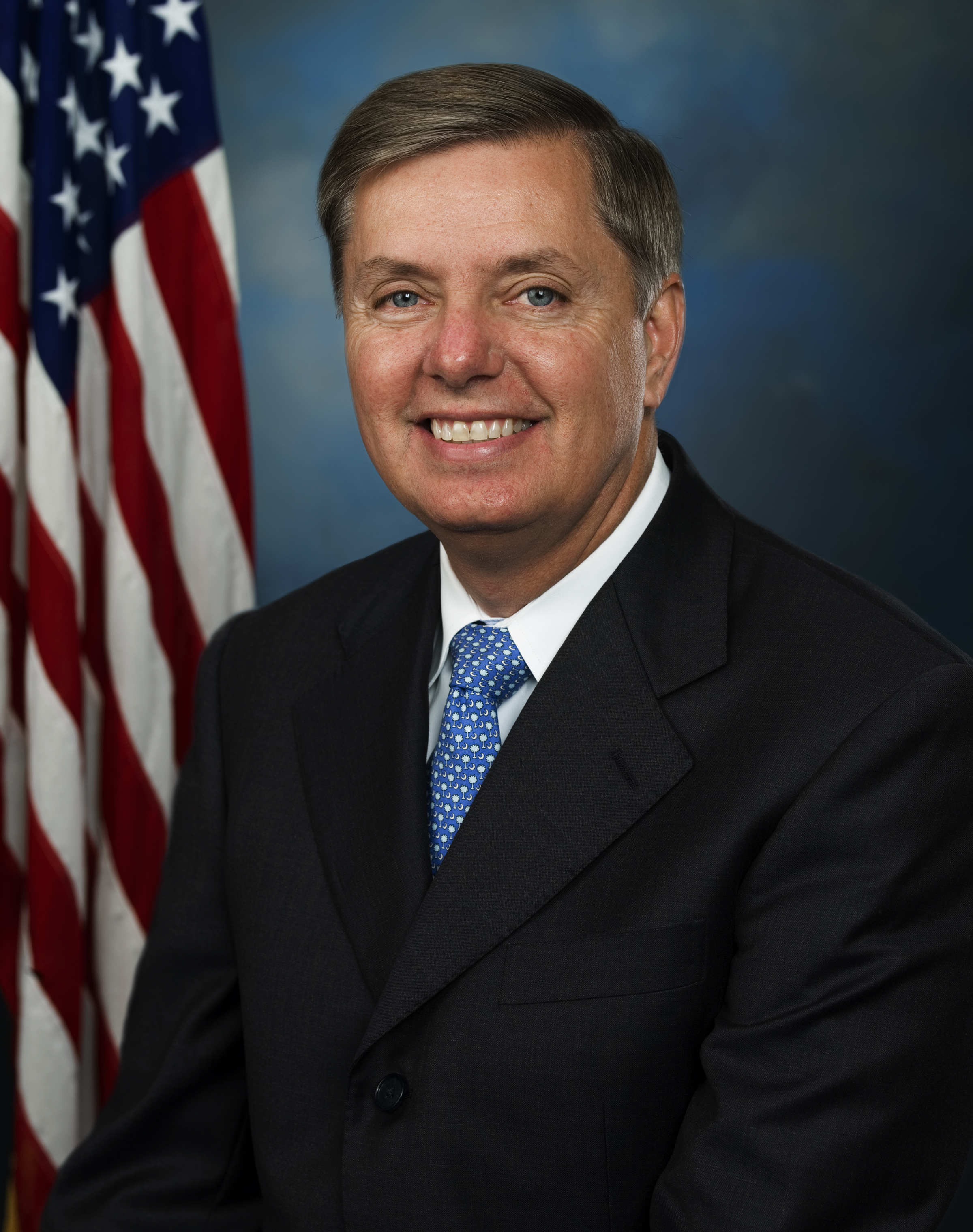 Official portrait of Senator Lindsey Graham of SC.